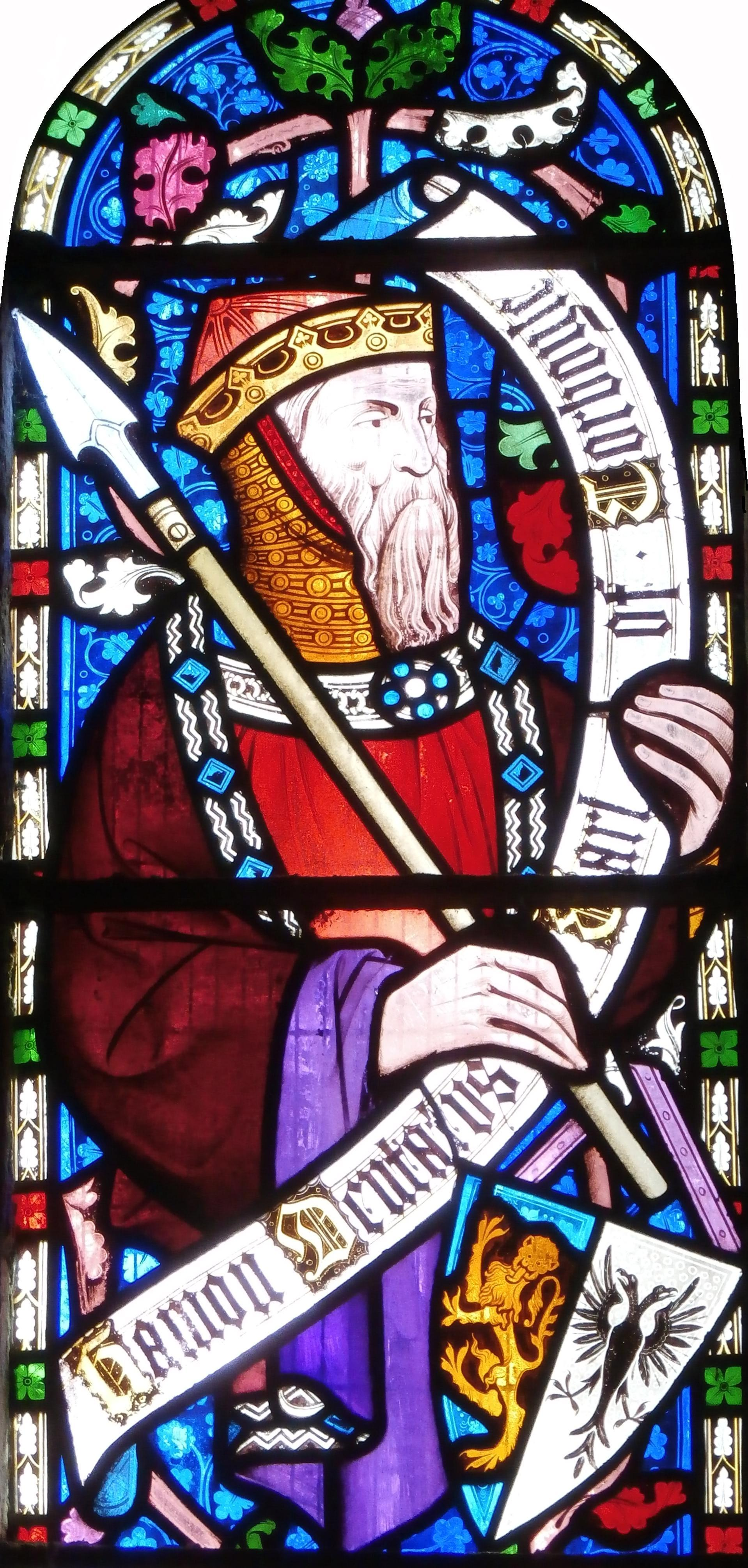 "Hamon Dentatus, Earl of Corboyle" (d.1047). Detail from 1st Grenville Window (1860) in south wall of Grenville Chapel, Church of St James the Great, Kilkhampton, Cornwall. His shield shows attributed (invented) arms of Azure, a lion rampant or impaling Argent, an eagle with two heads sable Window erected in 1860 by his supposed heirs male of the Grenville family: George Granville Sutherland-Leveson-Gower, 2nd Duke of Sutherland KG (1786-1861); John Alexander Thynne, 4th Marquess of Bath (1831–1896); George Granville Francis Egerton, 2nd Earl of Ellesmere (1823–1862); Lord John Thynne (1798-1881), DD, Canon of Westminster, a younger son of Thomas Thynne, 2nd Marquess of Bath (1765-1837), KG.